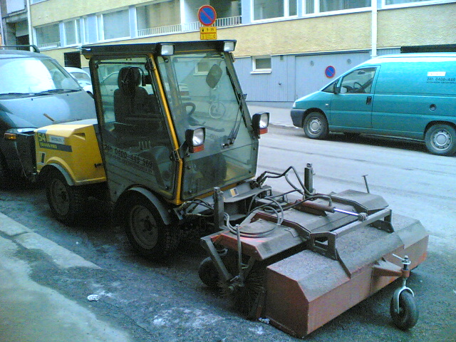 A snow sweeper on the streets of Helsinki